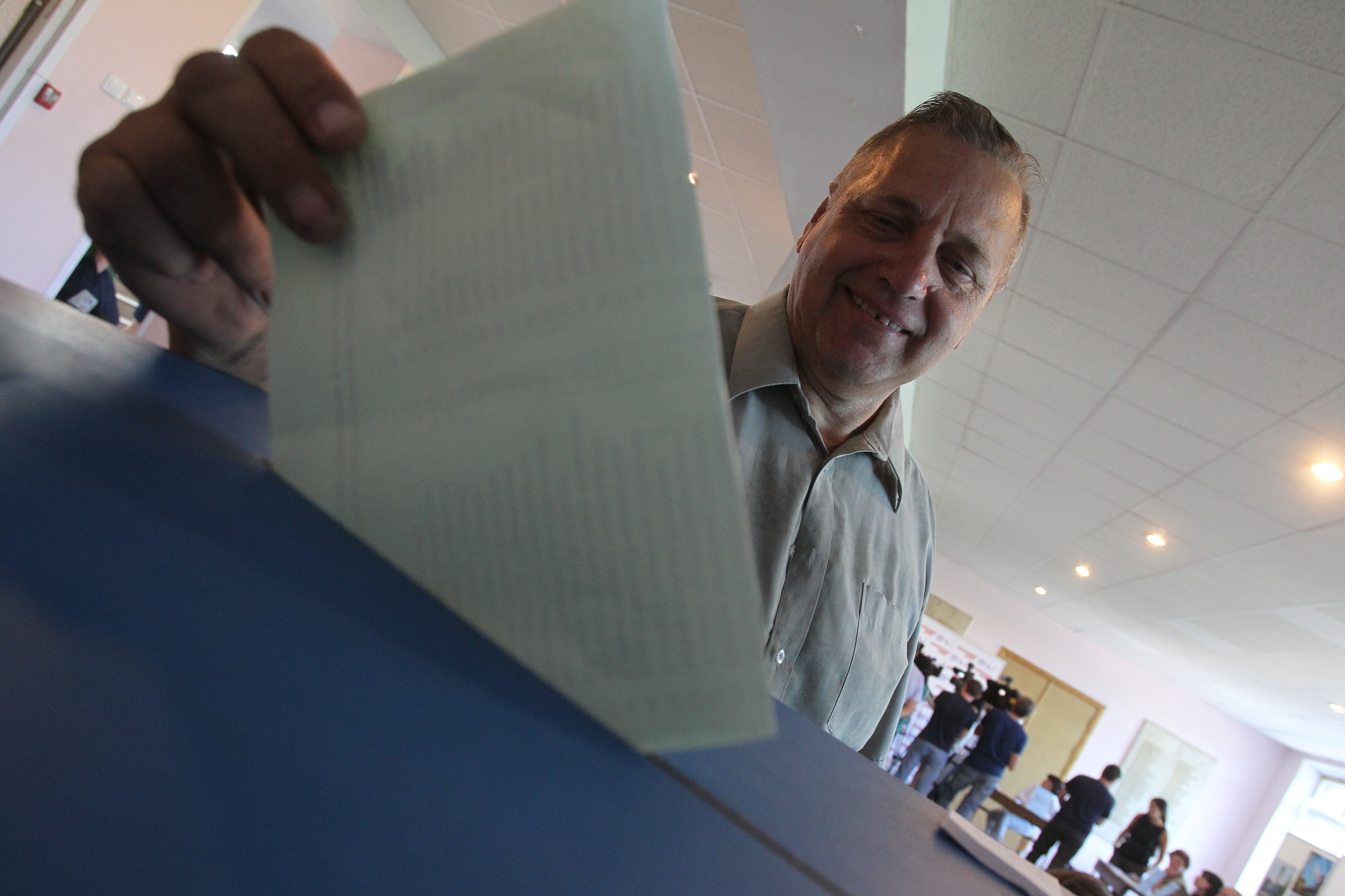 Participant of the United Russia Primaries (2011) in Nizhniy Novgorod takes part in the vote